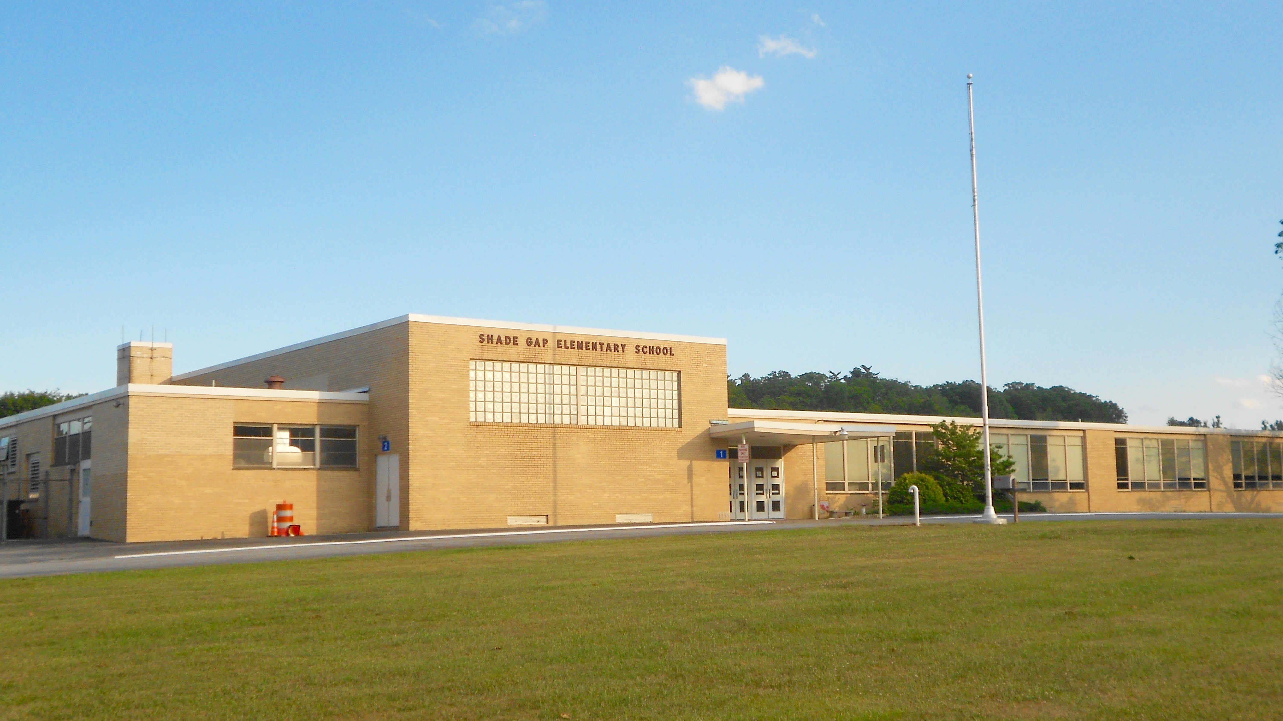 Shade Gap Elementary School in Shade Gap, Huntingdon County, Pennsylvania